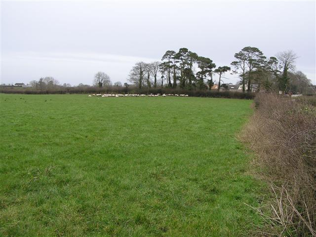 Aghacarnaghan Townland The grazing looks good here.